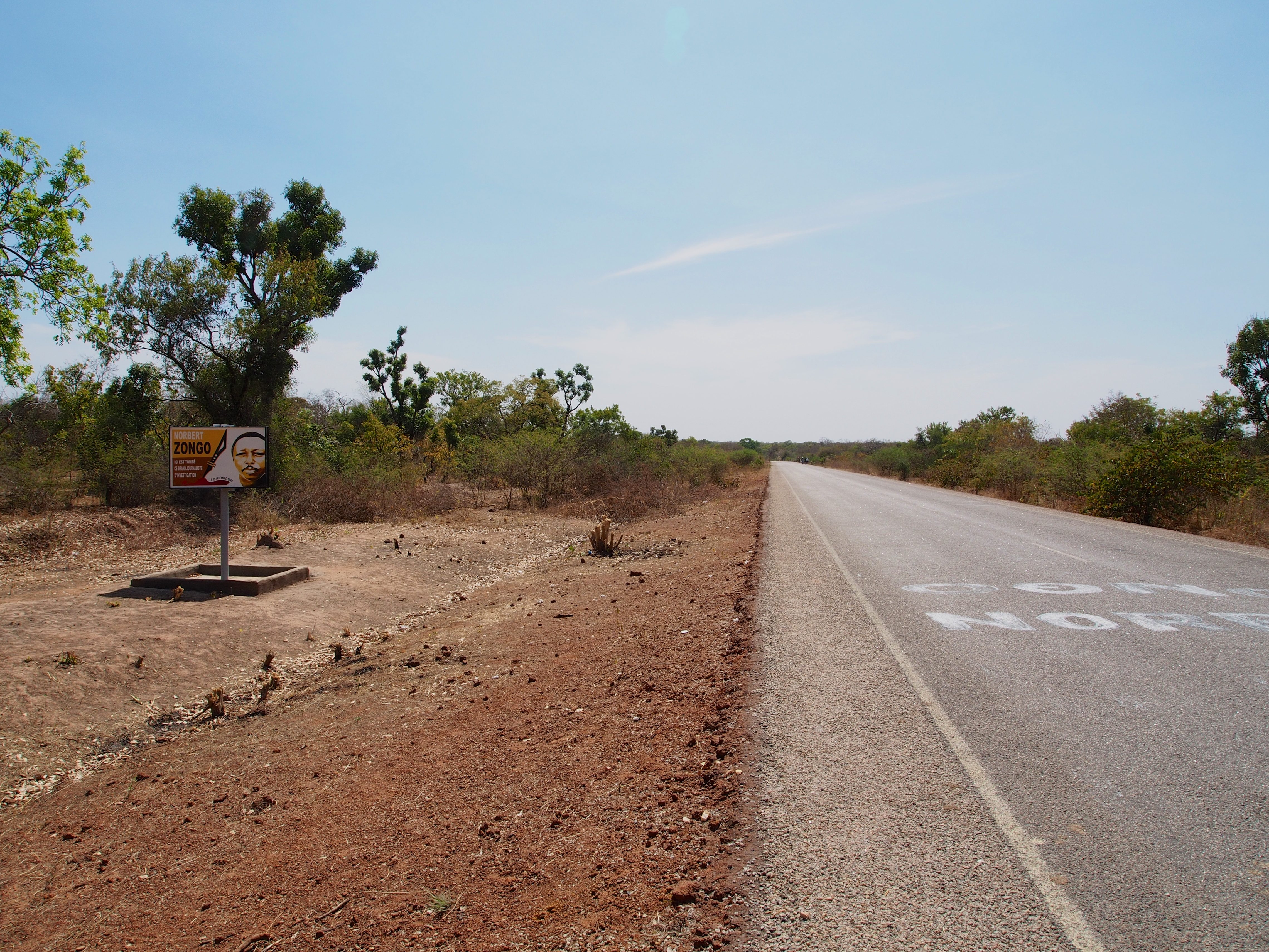 Memorial of the murder of Norbert Zongo. Highway N6 (Ouagadougou - Léo) near Sapouy, Burkina Faso. The view of the picture is SW, toward Leo.